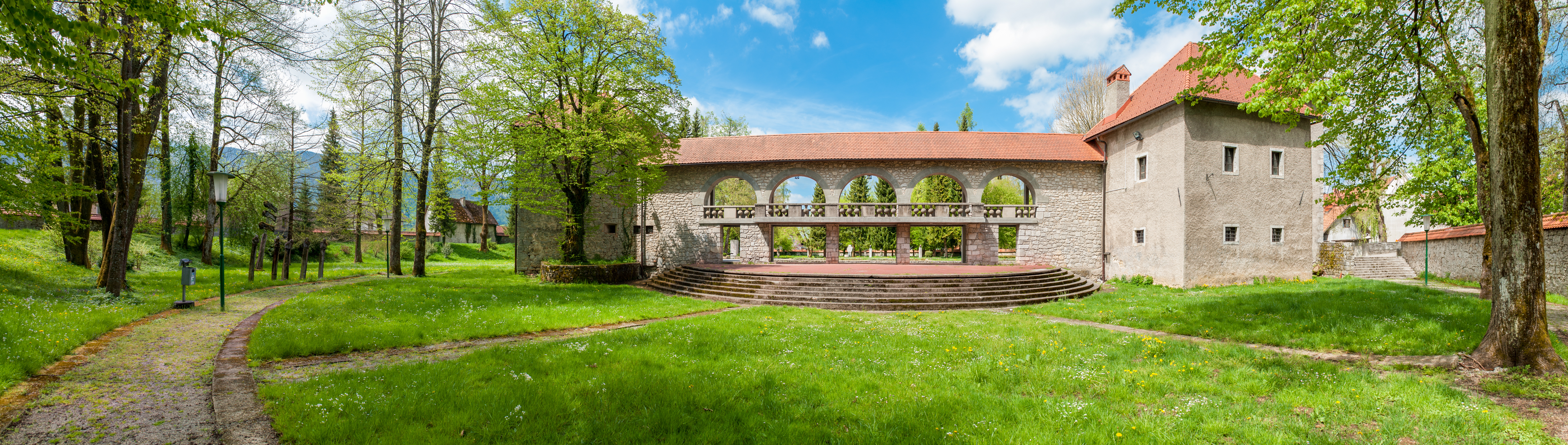 Panorama of Ribnica Castle